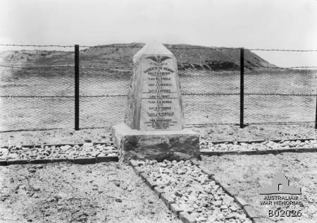 Palestine. A substantial monument erected by German airmen at Sheria, in memory of British and Australian airmen, killed in their lines. The stone tablet has the Royal Flying Corps logo and reads: 'Sacred to the memory of Capt FHV Bevan Gen List & RFC 19.4.17, 2/Lieut. NL Steele AFC 20.4.17, Lieut JS Brasell AFC 25.6.17, Capt CA Brooks Wiltshire Regt & RFC attached AFC 6.7.17, 2/Lieut AH Searle AFC 13.7.17, Capt RN Thomas Gen List and RFC 23.7.17, 2/Lieut JW Howells Lancashire Fusiliers & RFC 23.2.17. This monument generously erected to one of them by their enemies was discovered and restored by their friends - January 1918.'.